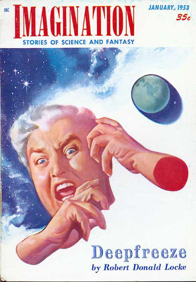 Cover of Imagination, January 1953